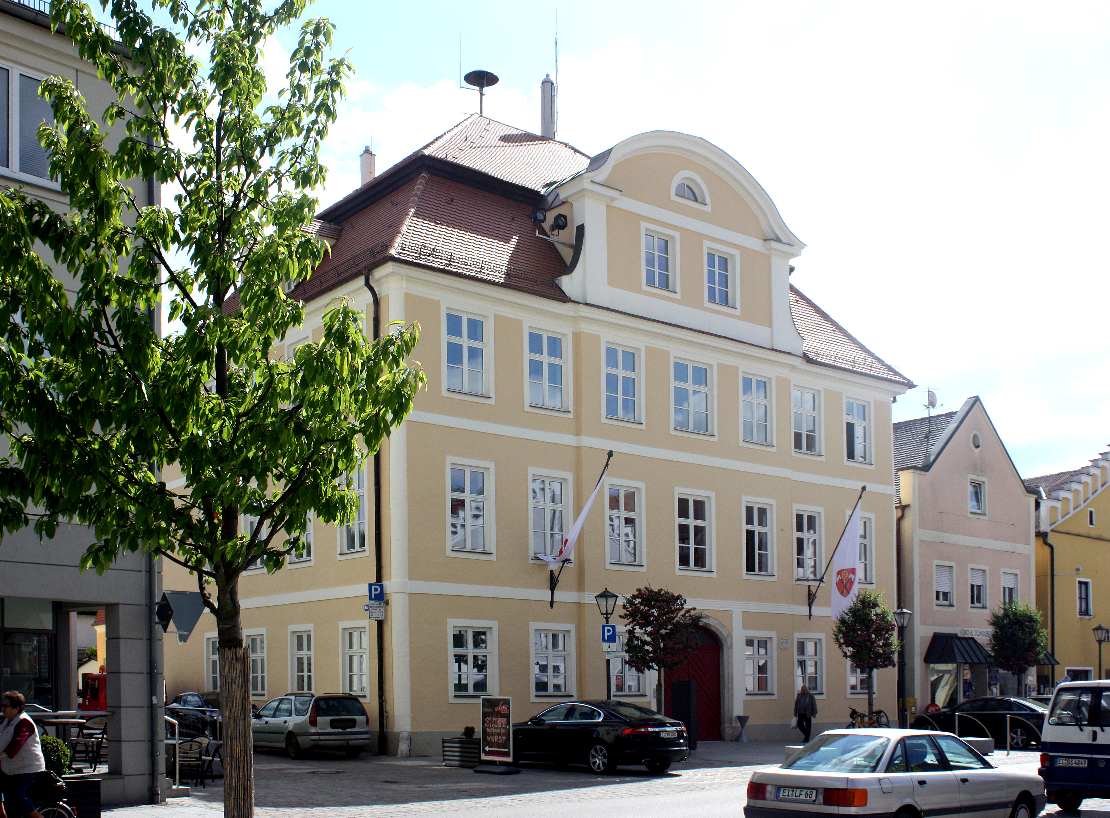 Rathaus Beilngries This is a photograph of an architectural monument.